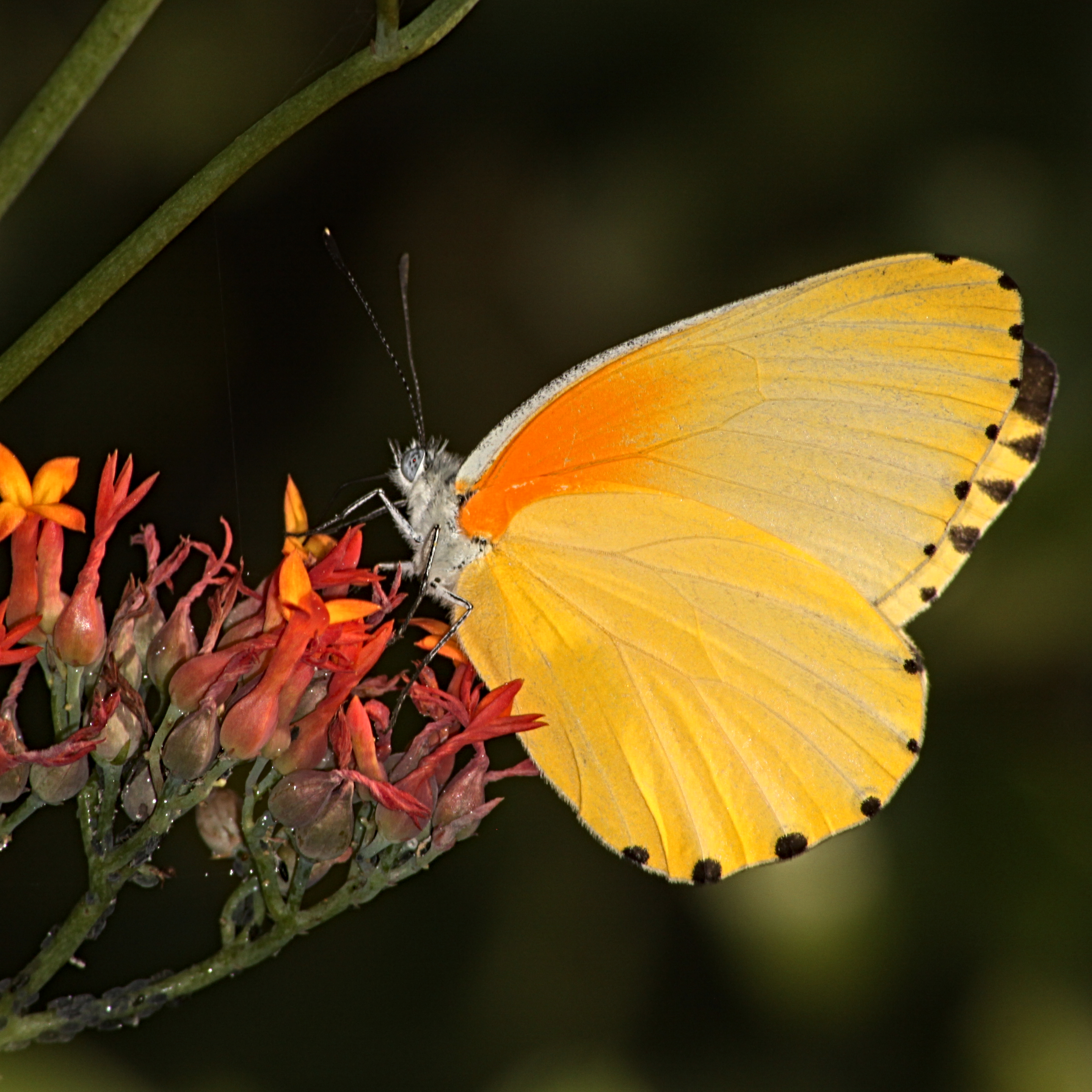 Common dotted border, Mylothris agathina, female